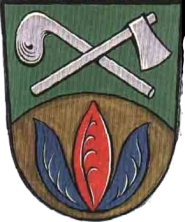 Coat of arms of the Town Schönbrunn am Lusen